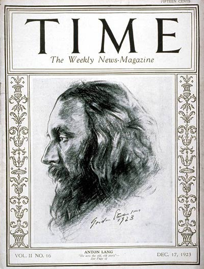 TIME Magazine Cover Featuring Anton Lang (17 Dec 1923)